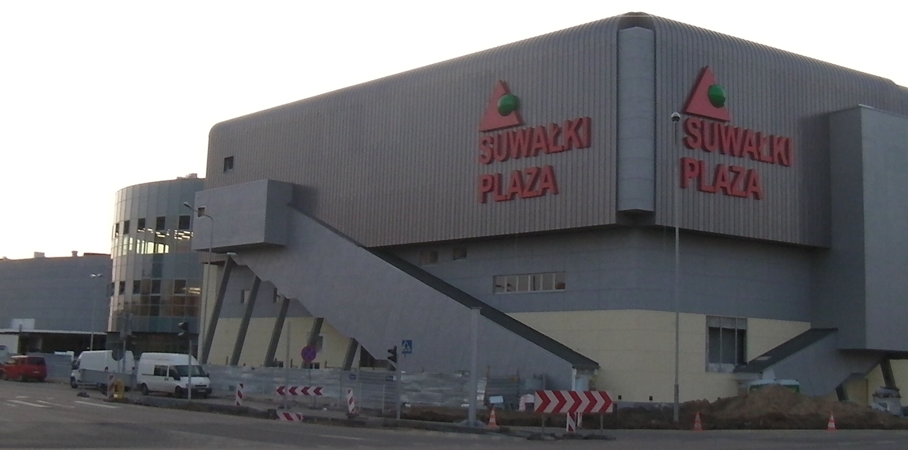 Suwałki Plaza, a shopping mall and cinema complex that opened in Suwałki, Poland in 2010